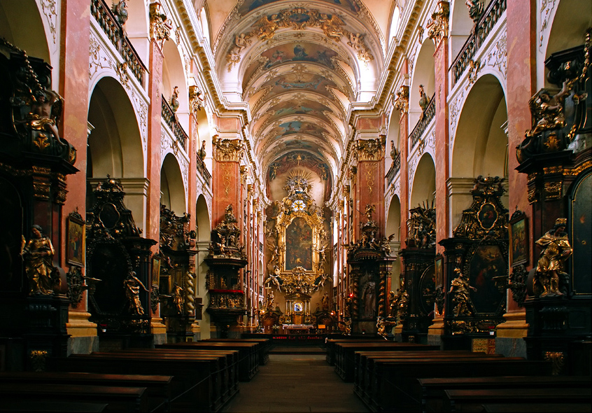 Interior of st. James churuch in Prague